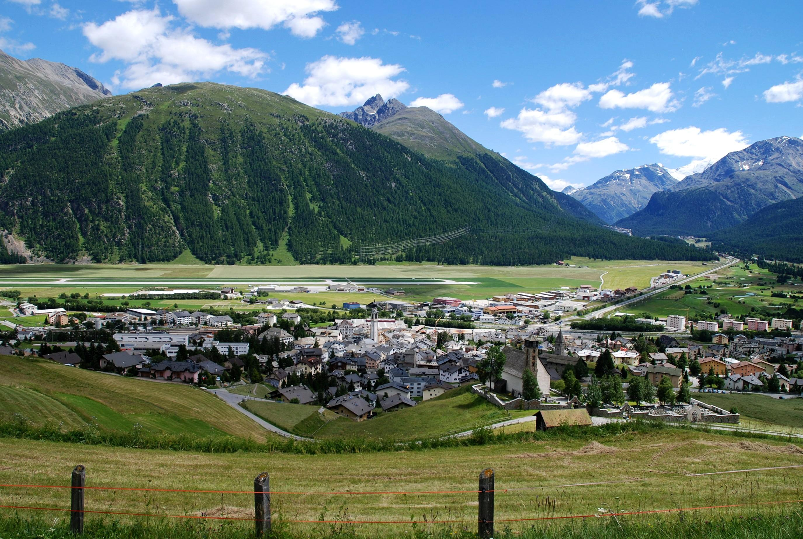 Samedan, Graubünden